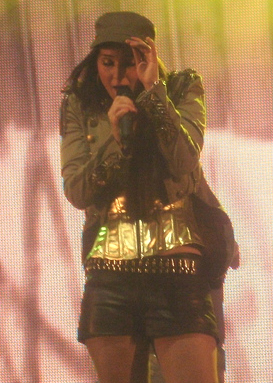 Tulisa performing with N-Dubz in Pilton,England